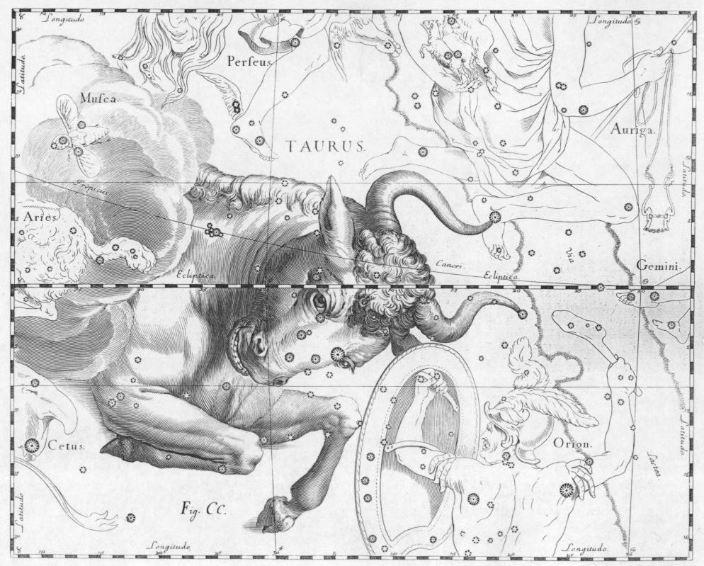 The Canes Venatici constellation from Uranographia by Johannes Hevelius. The view is mirrored following the tradition of celestial globes, showing the celestial sphere in a view from "ouside"